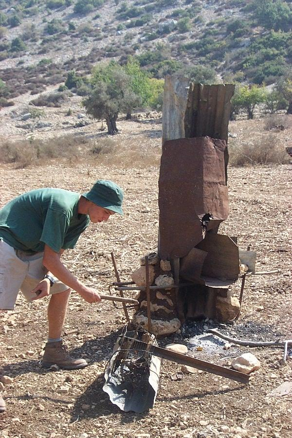 Cooking on a campfire